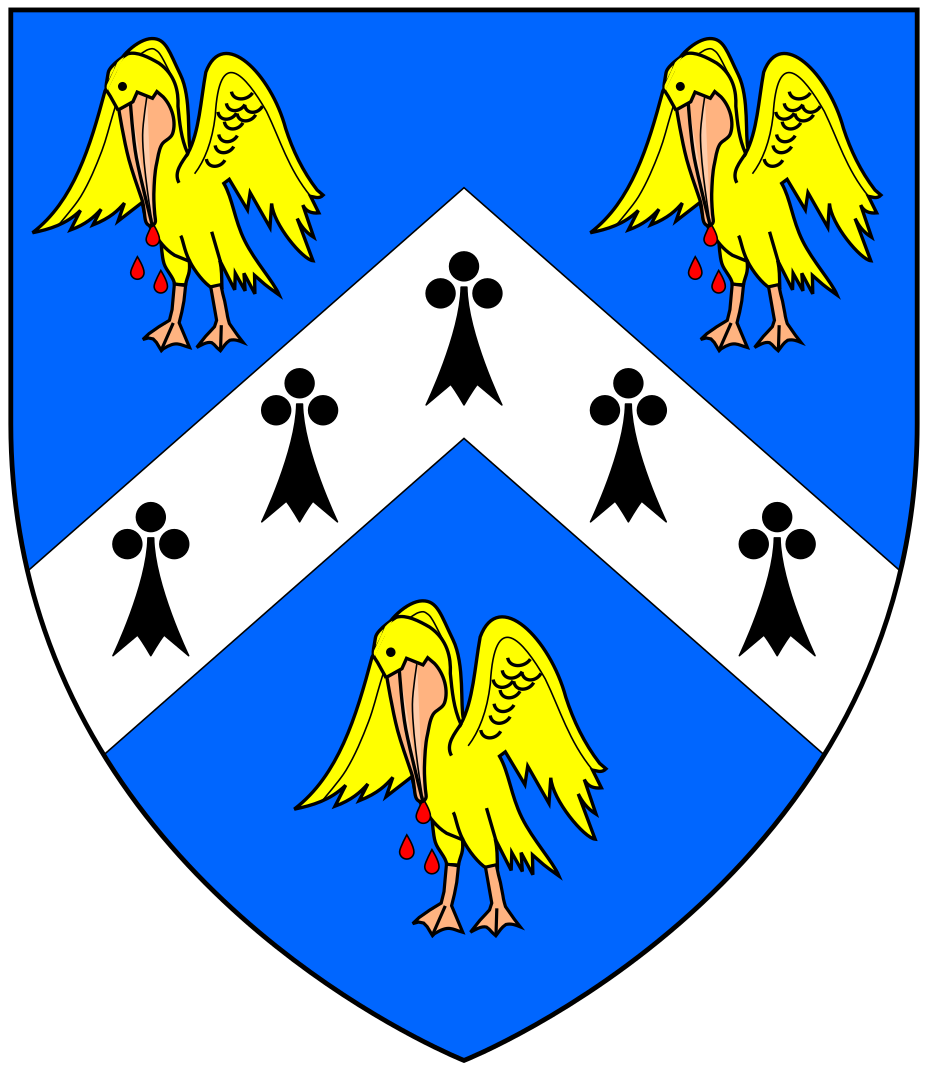 Armorials of Culme family of Canonsleigh & Molland-Champson, Devon: Azure, a chevron ermine between 3 pelicans vulning their breasts or. Also the arms of Meadows/Medowe of Witnesham Hall, Suffolk (16th c) (Burke's Landed Gentry, 1937, pp.1573-4)